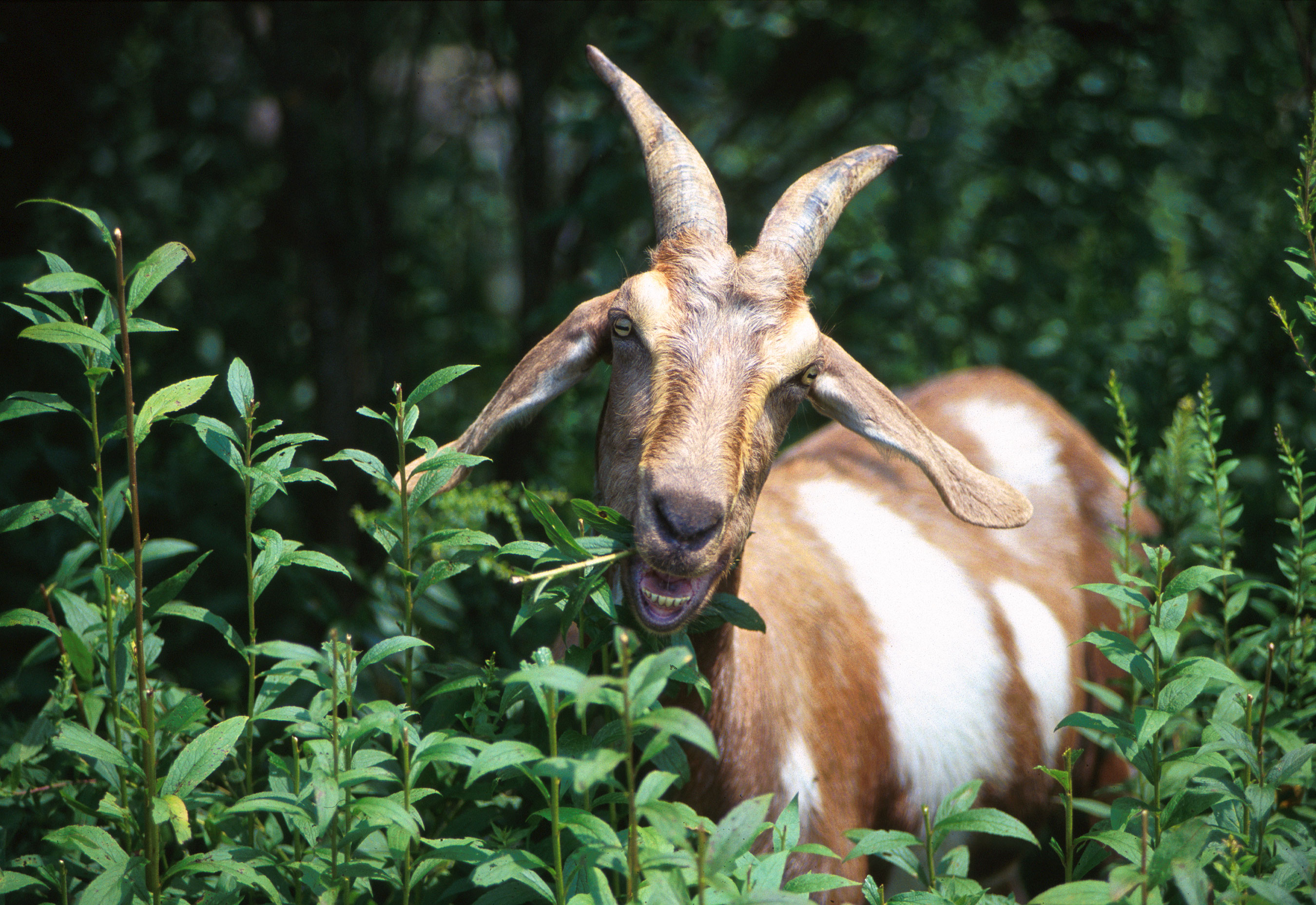 Preferring woody and weedy species, goats select the young growing points first as they browse downward from the upper parts of a plant.